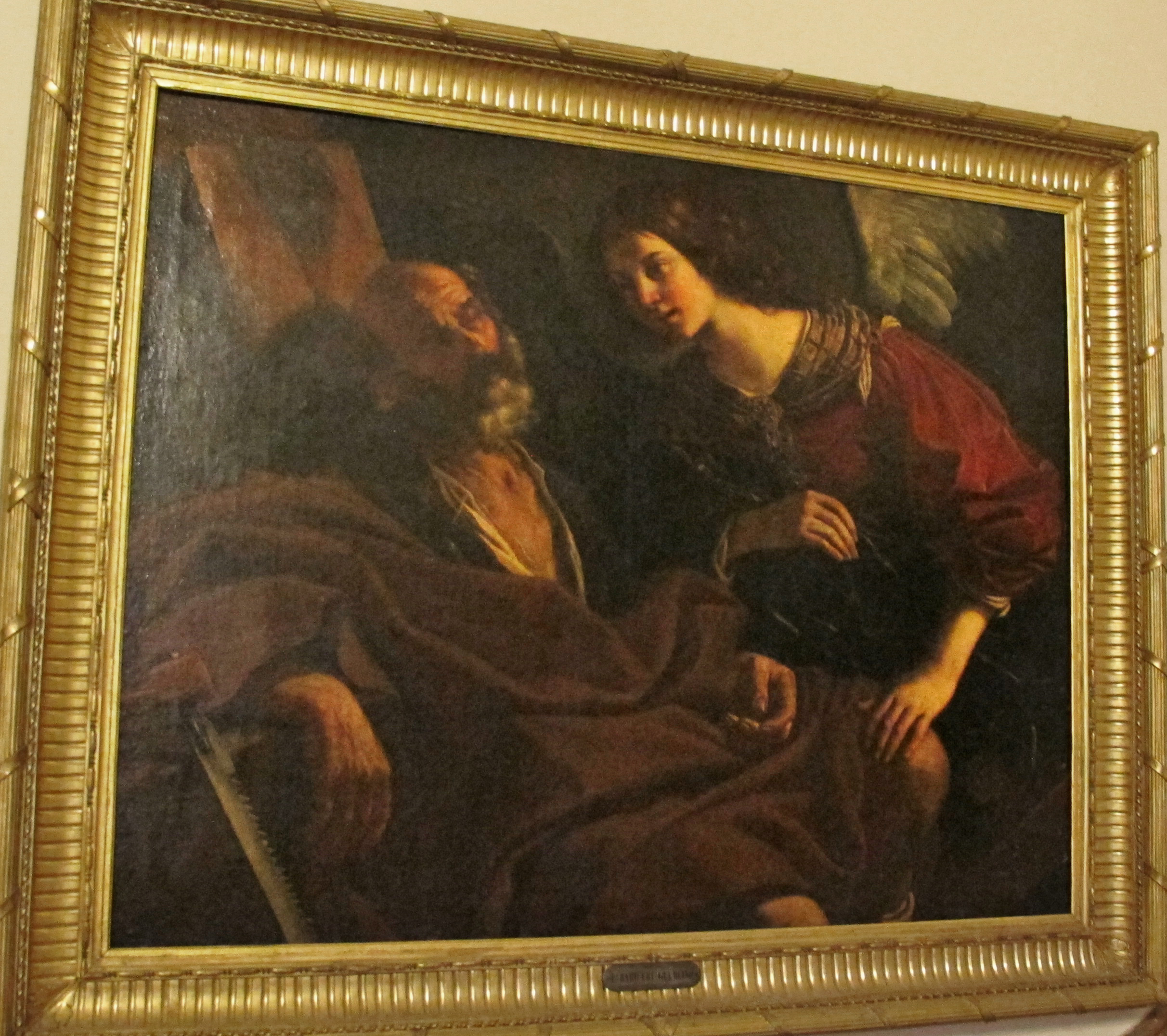 Paintings in the Royal Palace of Naples